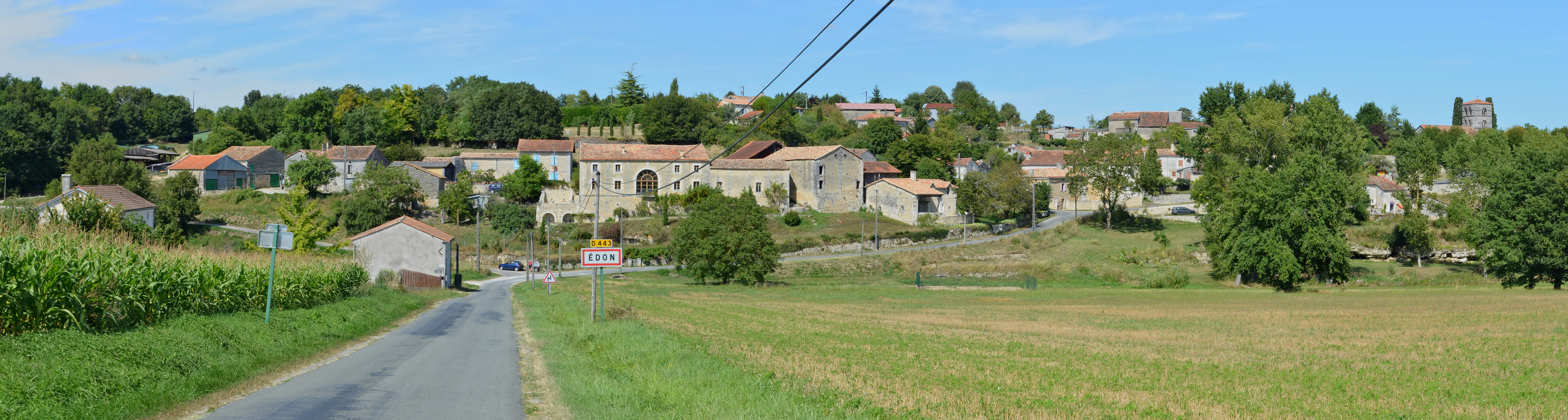 Panorama, from S-SW, of the country village of Edon, Charente, France.